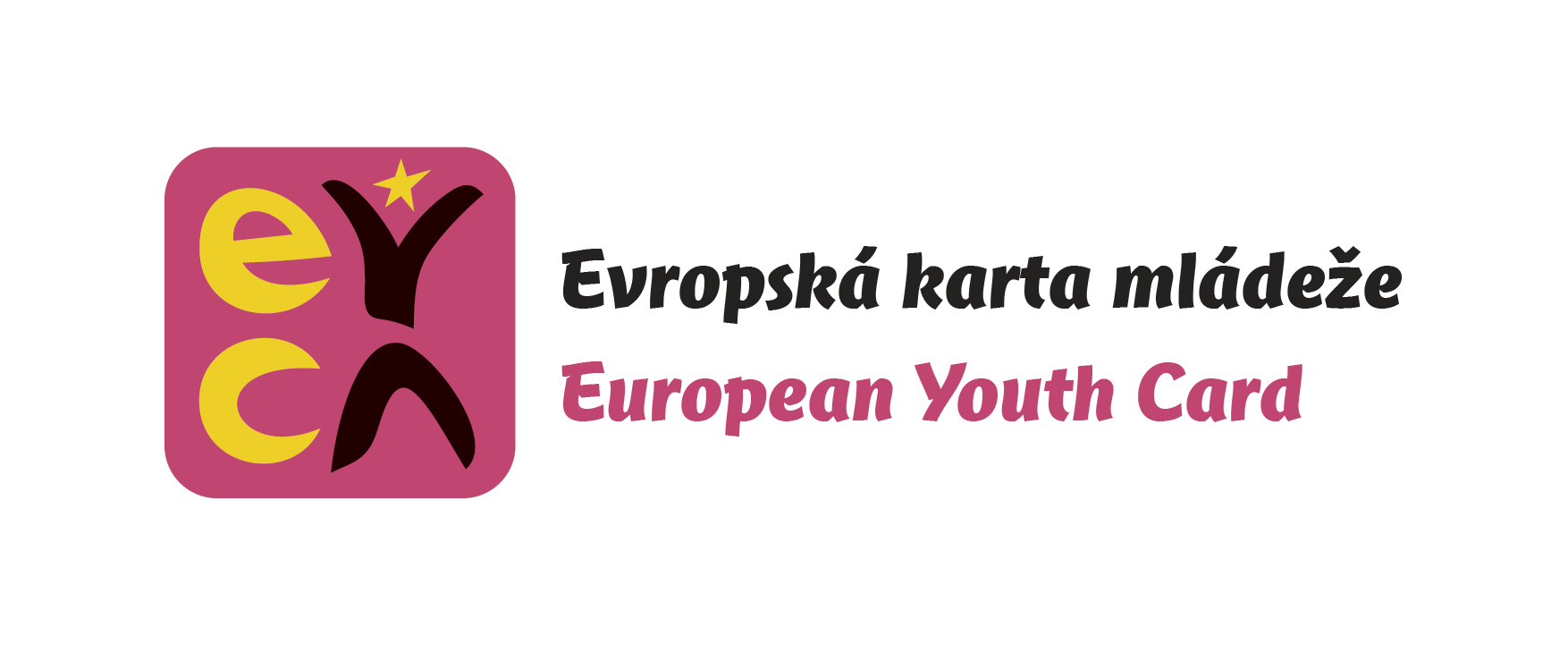 Official logo European youth cards EYCA at Czech republic